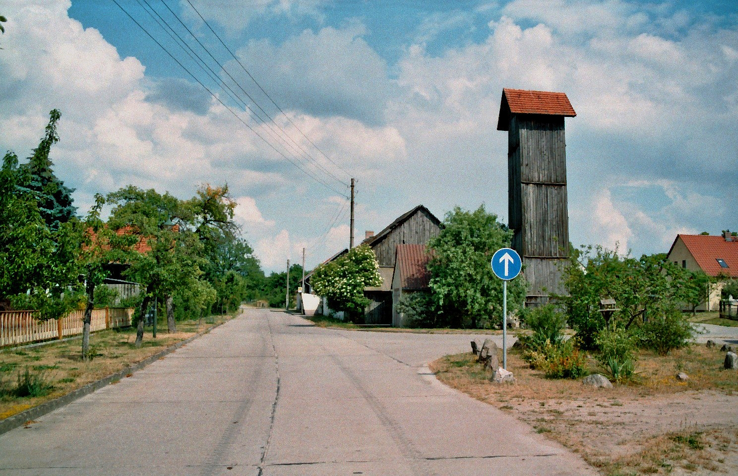 Byhlener Dorfstraße (Byhlen Village Street) in Byhlen, Byhleguhre-Byhlen, Landkreis Dahme-Spreewald, Brandenburg, Germany.